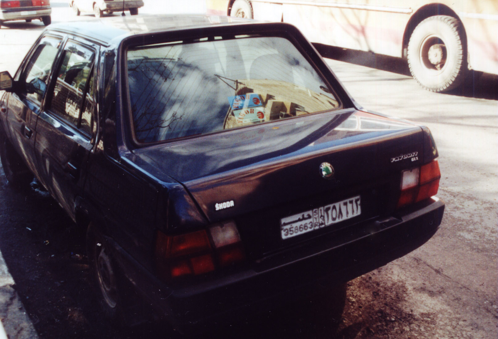 Škoda Favorit GLX (sedan??) in Syrian Aleppo (I've never seen similar Škoda outside Syria). It isn't original Škoda Favorit sedan, I think it is modification made in Syria. If you know more about this modification, you can edit discussion page.